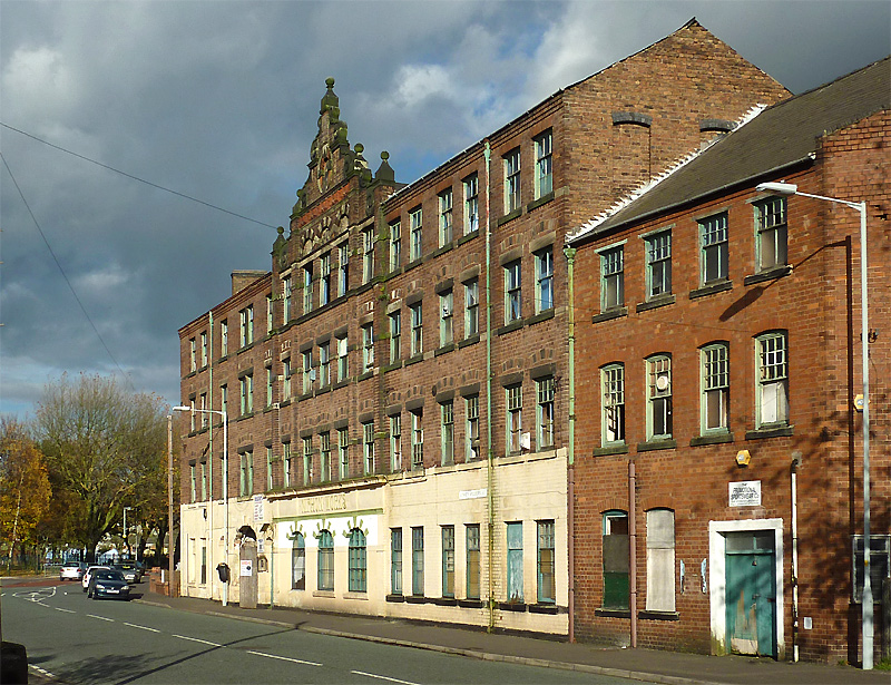 Niphon Works Building at Blakenhall, WolverhamptonIn Lower Villiers Street this Victorian factory building was built for Robert Stroud and Company c1865. This 1897 extract is directly lifted from the local history website: "Messrs. Stroud and Co.'s machinery, plant and appliances are excellent in every respect, and no doubt the all round superiority of the facilities that they possess accounts in no small degree for the eminence they have attained in their lines of trade. Tin-plate and japanned ware, japanned stationery goods, and all classes of stamped goods, trunks baths, deed and cash boxes, wash stands, toilet sets, coal vases, dish covers, trays and waiters, fire screens, and every description of wares for art decoration are produced in great quantities at these works, the demand for them being an extraordinary one. The sound workmanship and finish and general excellence of all the articles enumerated are admitted, and the goods of this firm are thus able to withstand any competition."